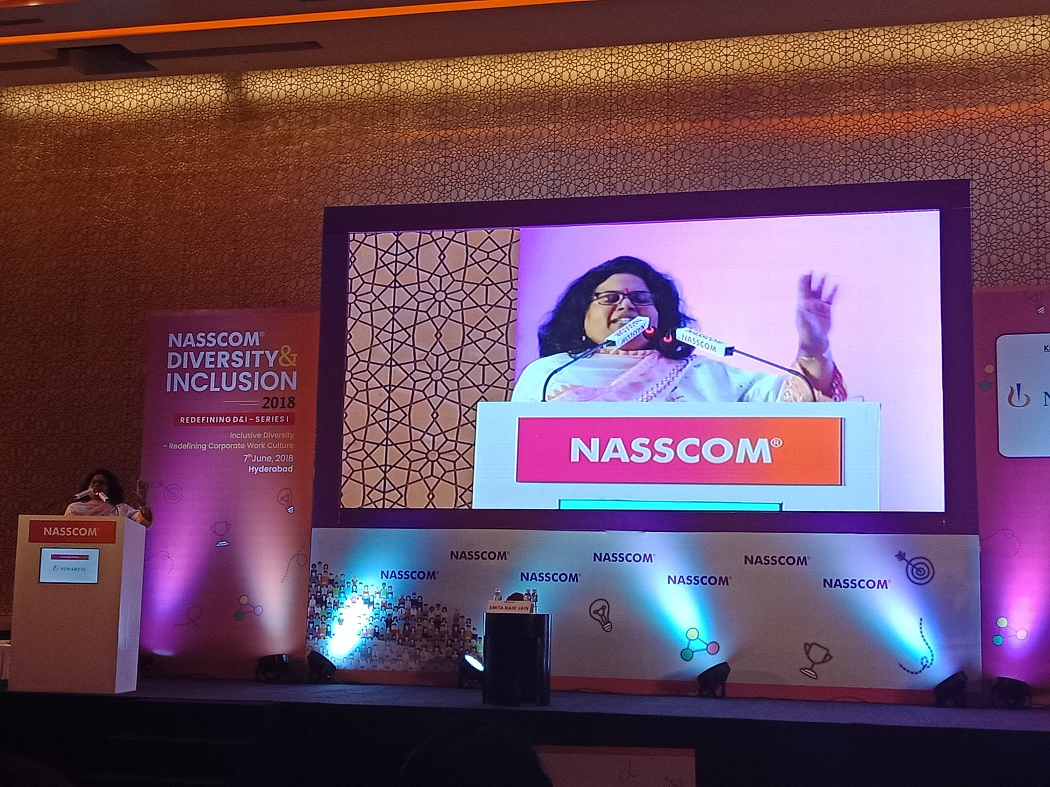 Speaking To Promote her new Book